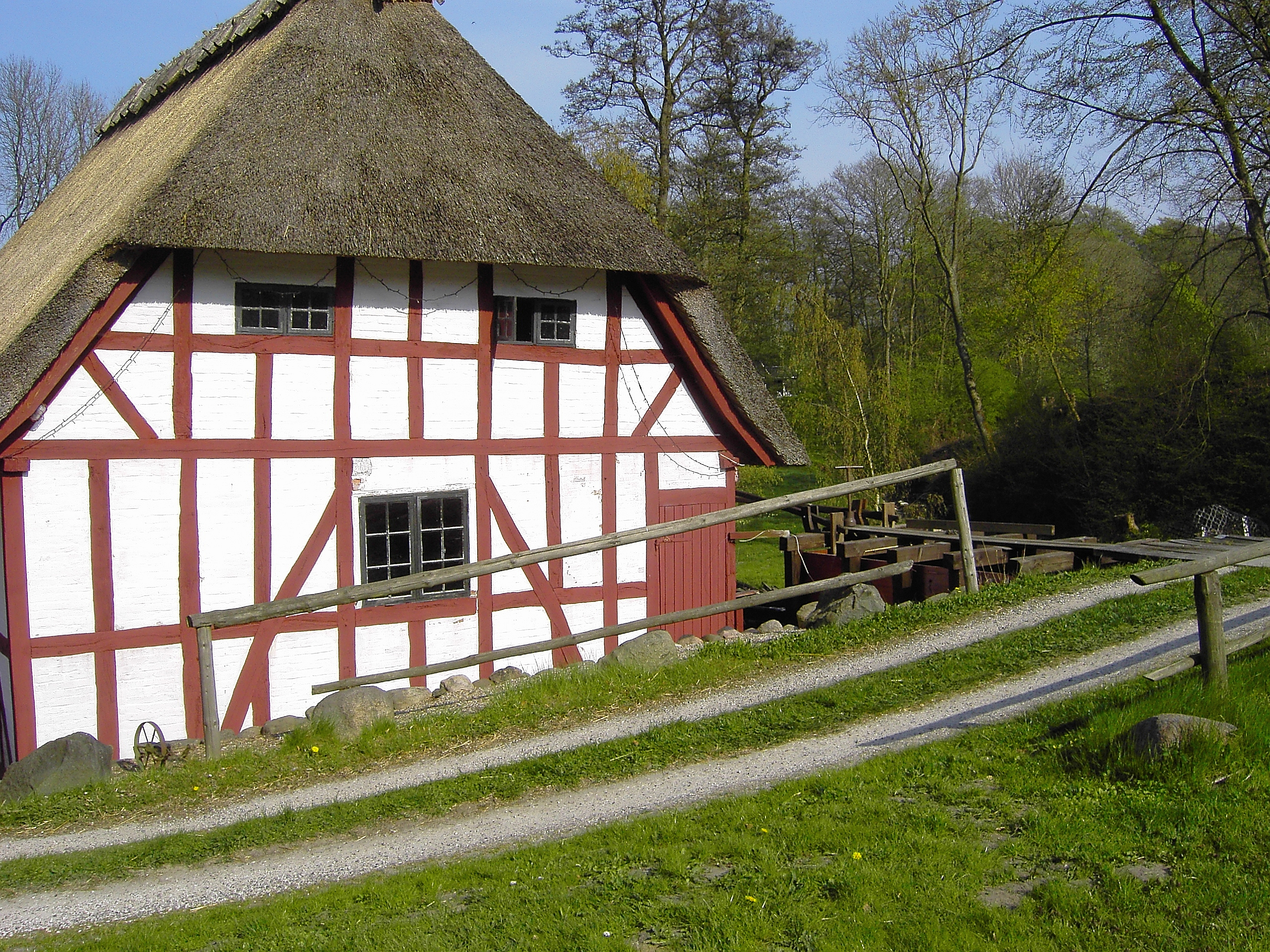 Vejstrup Watermill